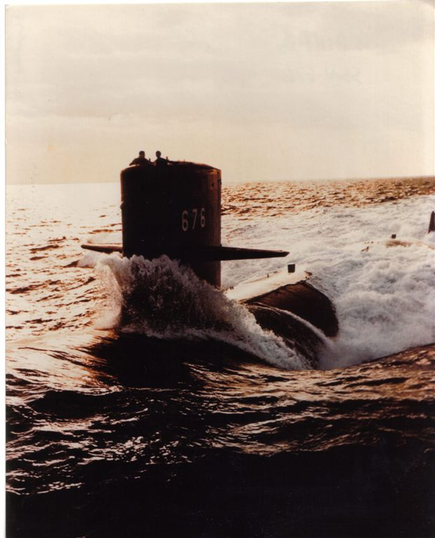 United States Navy attack submarine USS Billfish (SSN-676)